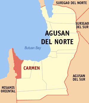 Map of the Agusan del Norte showing the location of Carmen